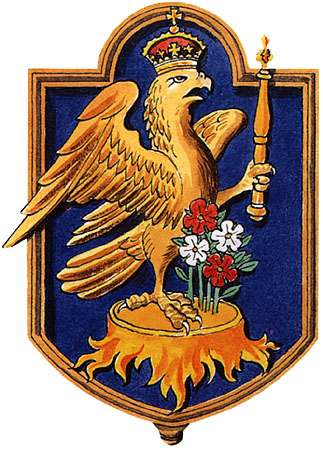 Royal badge of Queen Anne Boleyn